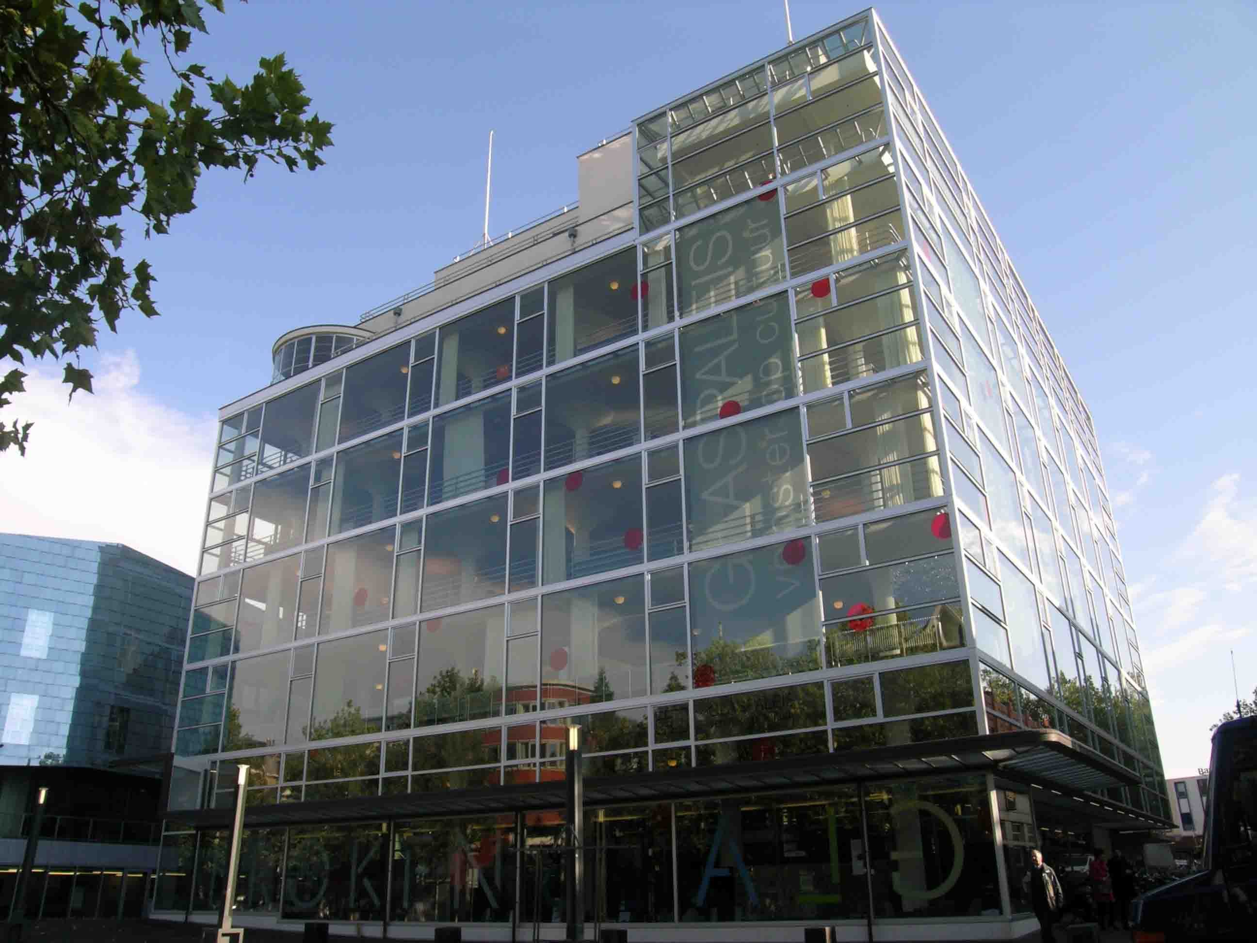 The front (northwest) side of the